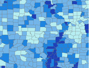 Jenks Natural Breaks